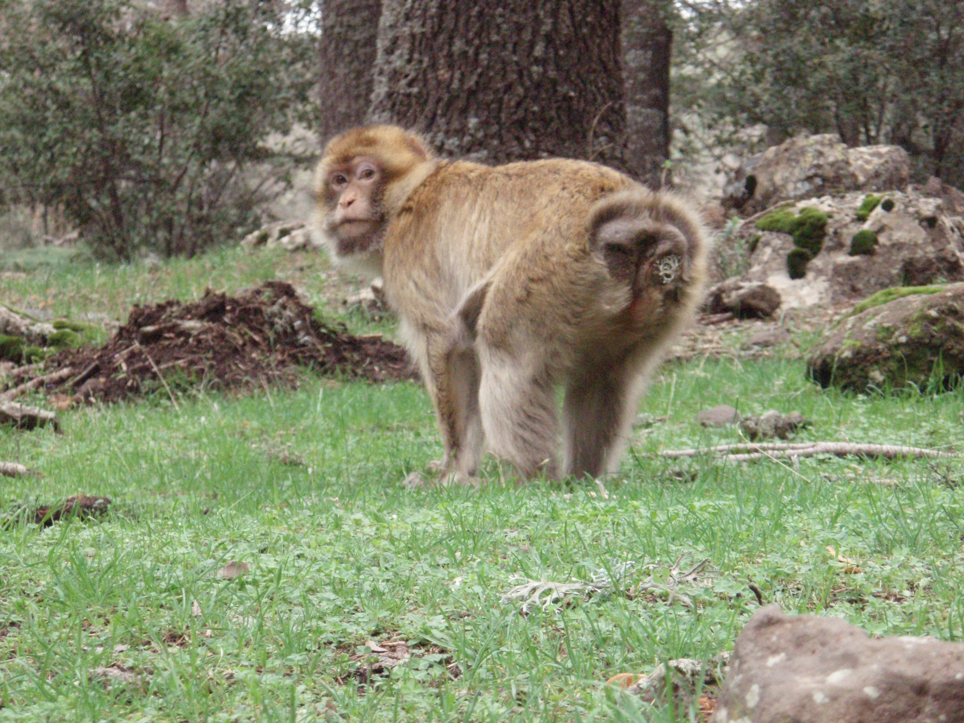 Barbary macaque are tailless